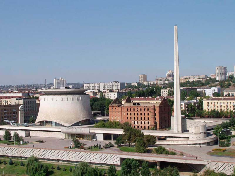 Voroshilovskiy district of Volgograd.